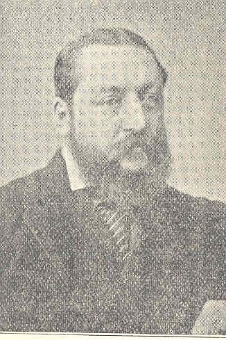 Sir Love Parry Jones Parry, Madryn